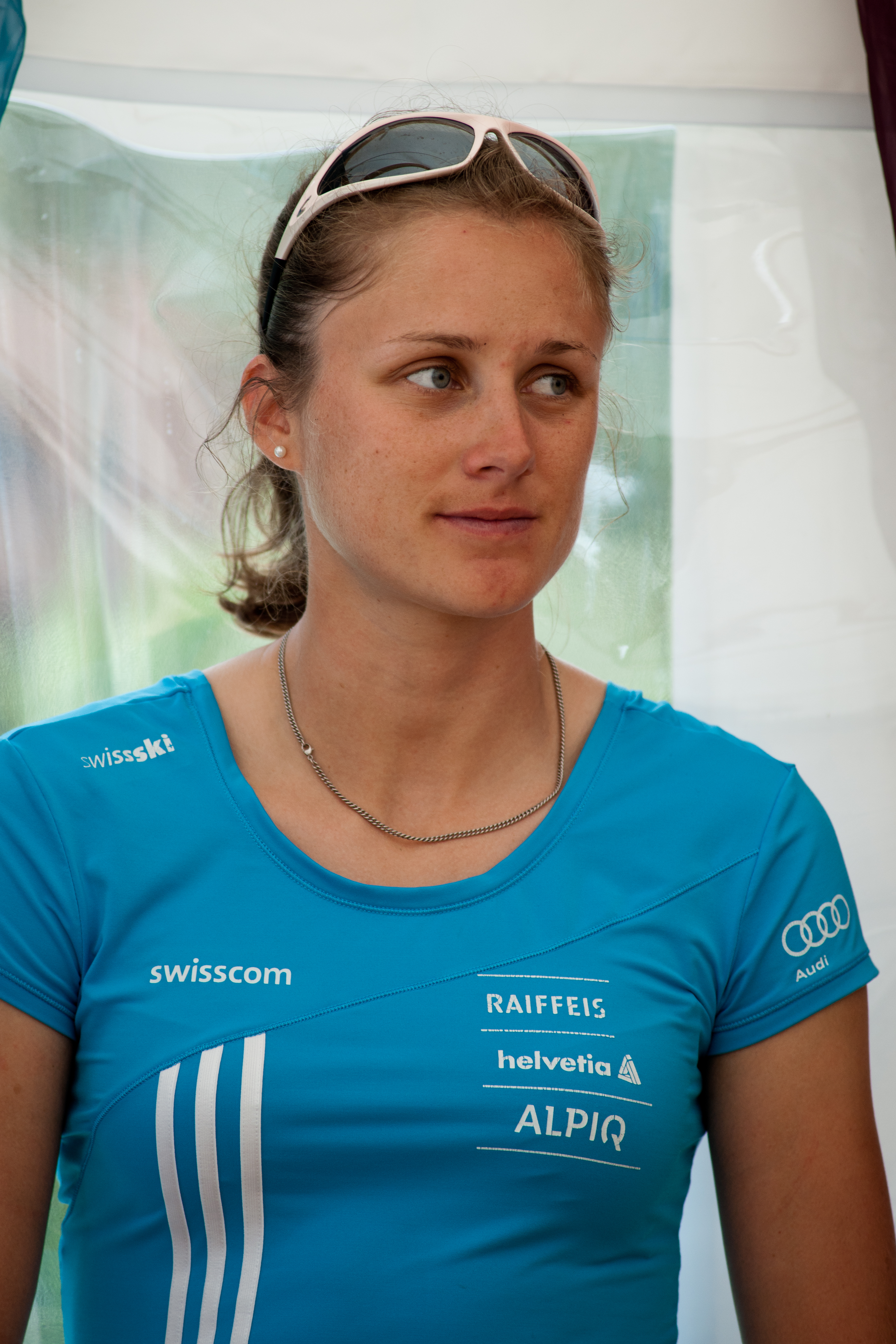 Unterseen, Switzerland